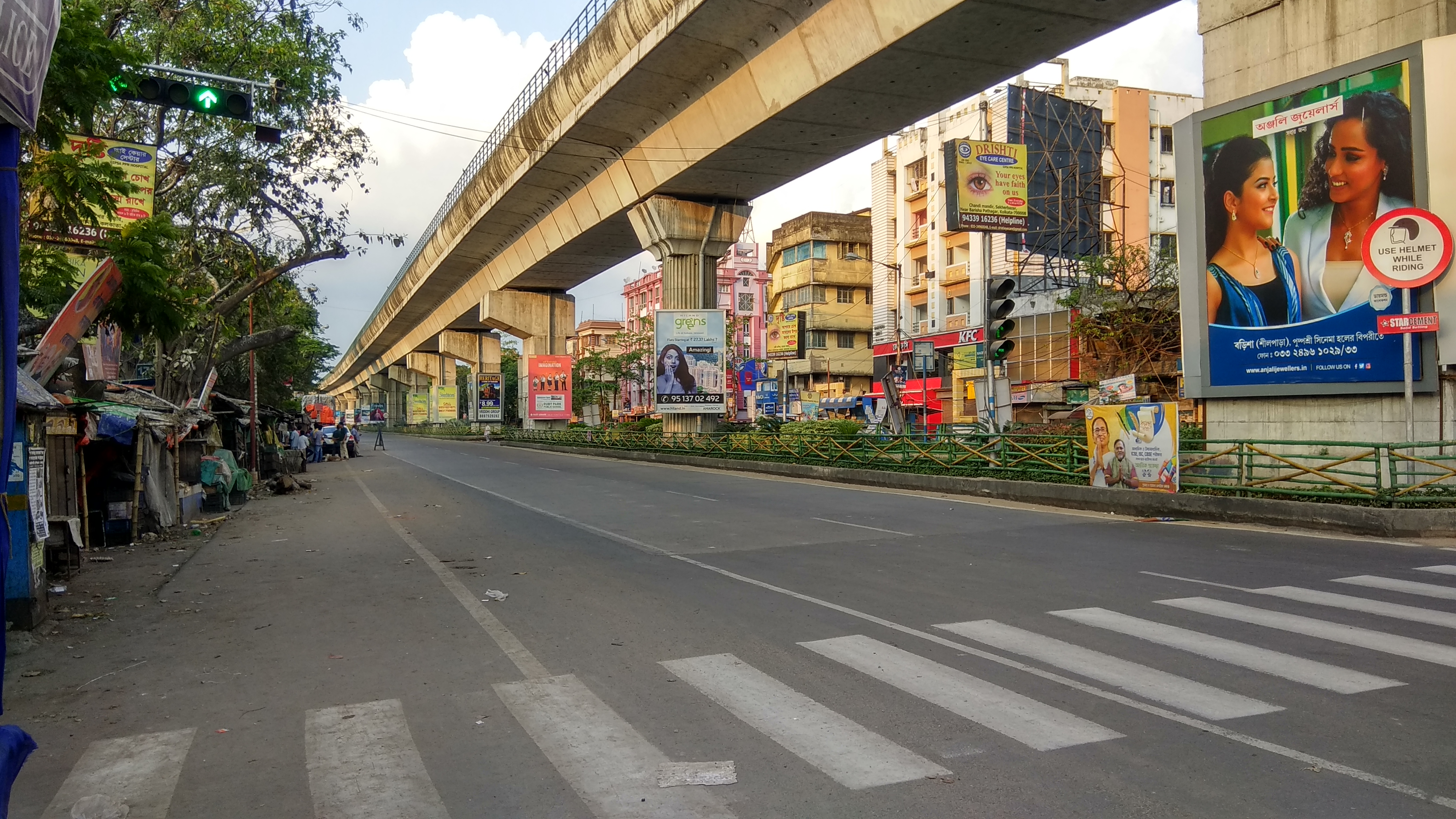 Photo of Kolkata Metro Line 3 during the coronavirus pandemic